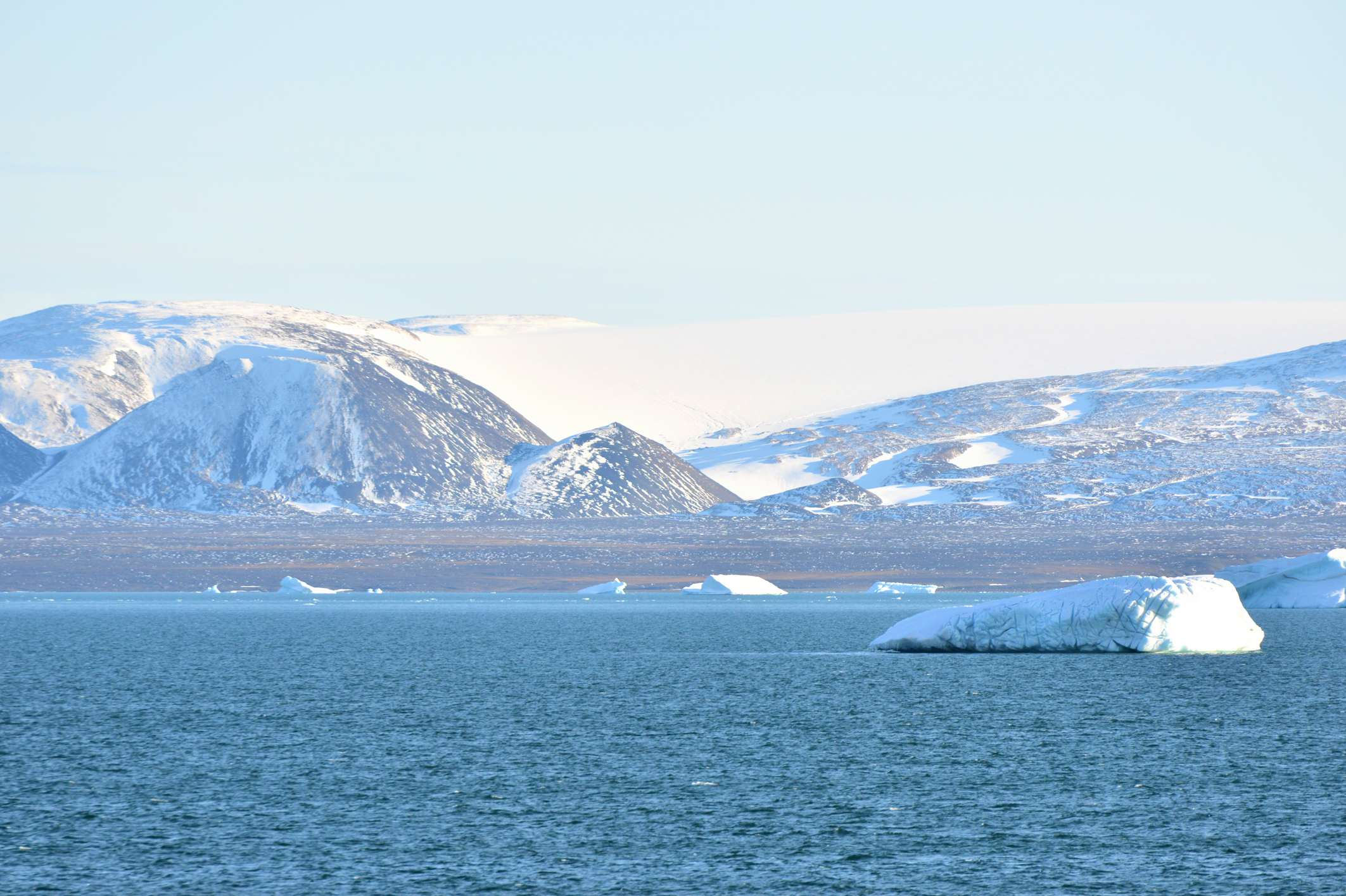 Icebergs in Mikojana Bay (Bolshevik Island, Severnaya Semlya, Russia)